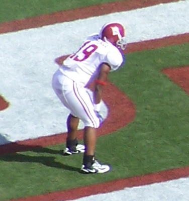 Tim Castille stands in the backfield for Alabama in 2006. This game was played in Razorback Stadium against the University of Arkansas.